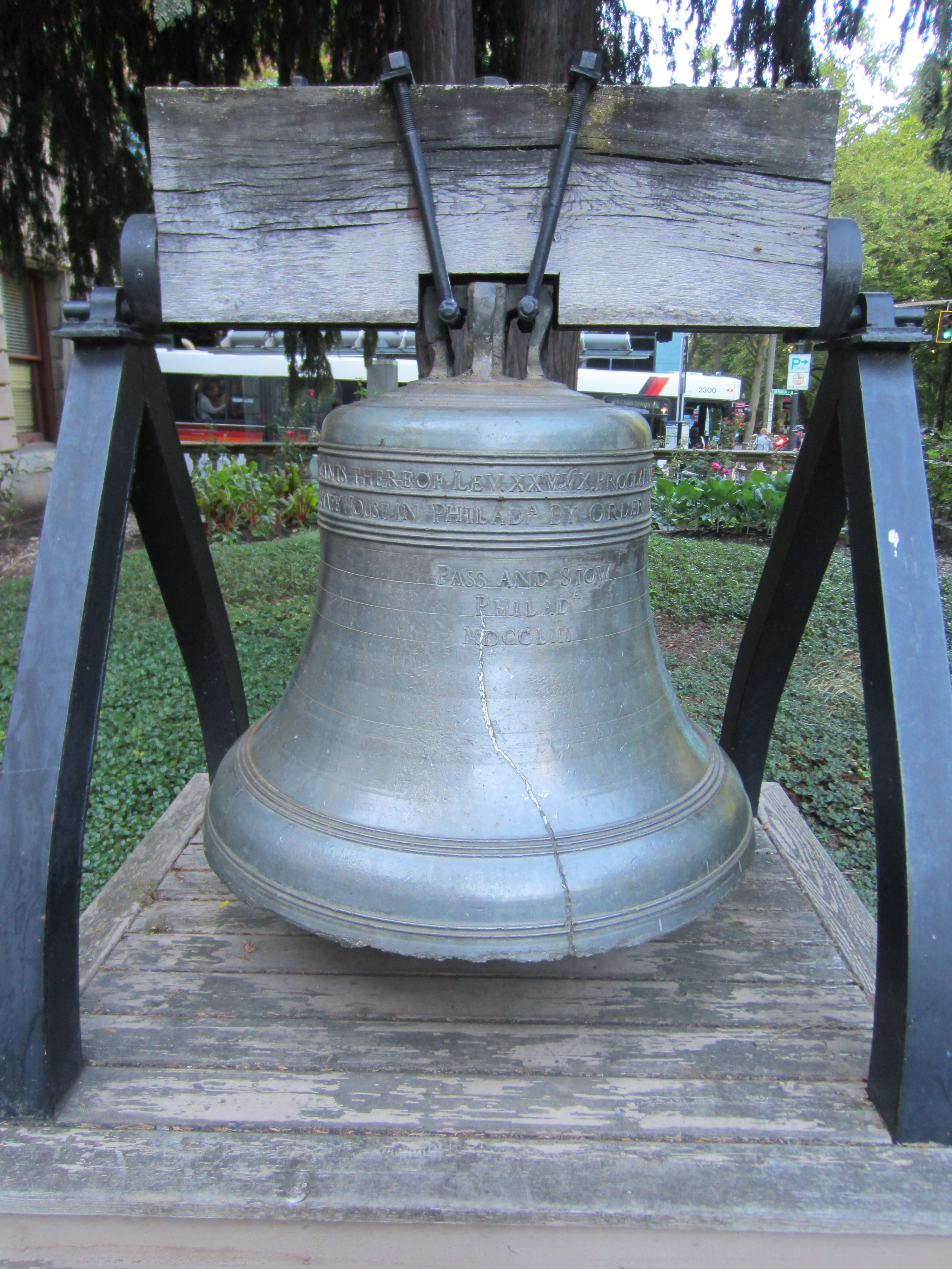 Portland City Hall, Oregon (2012)